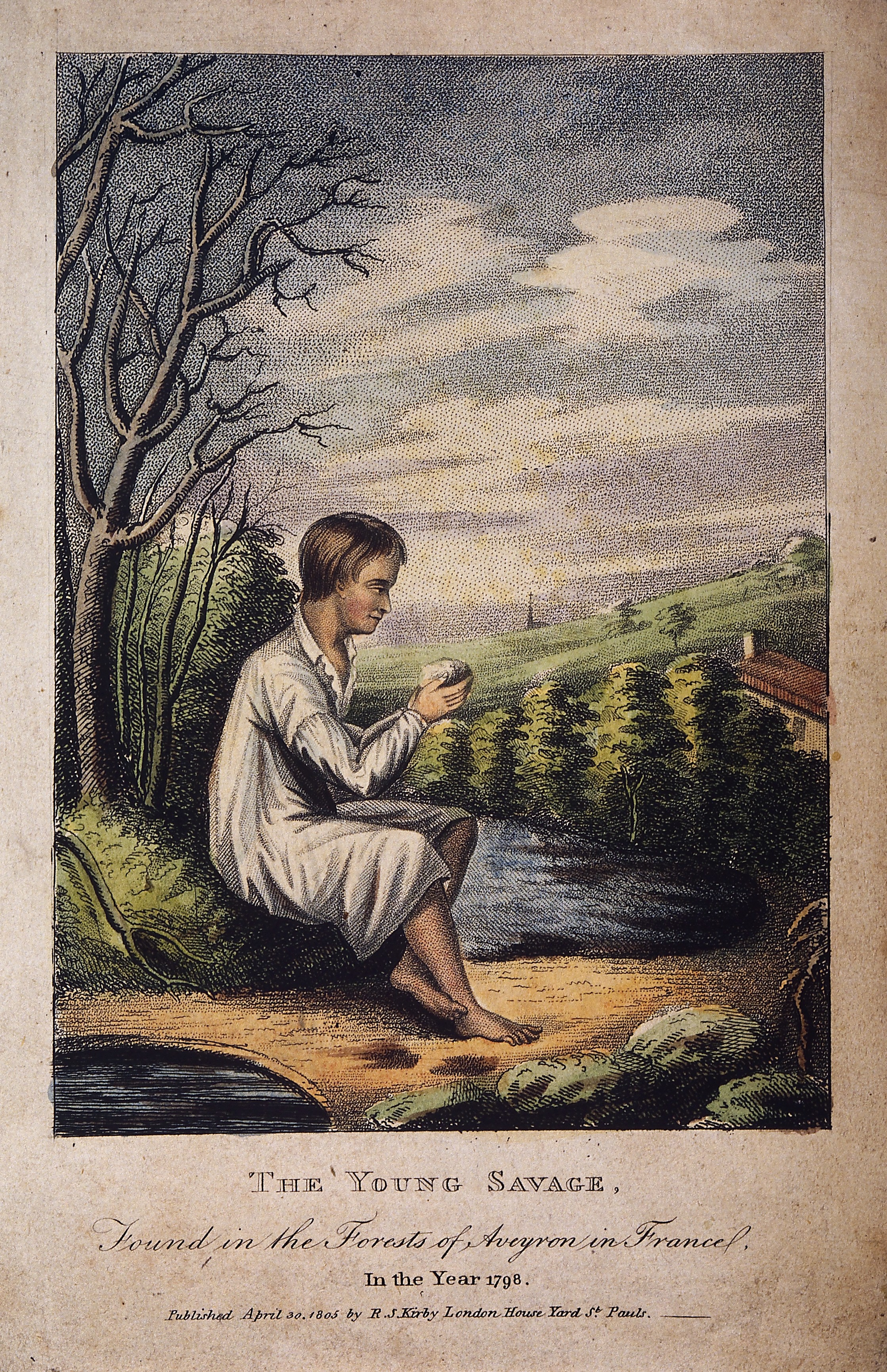 A boy found in the forests of Aveyron, France, who had been living 'wild' since a small child as he was unable to speak. Coloured engraving, 1805. Iconographic Collections